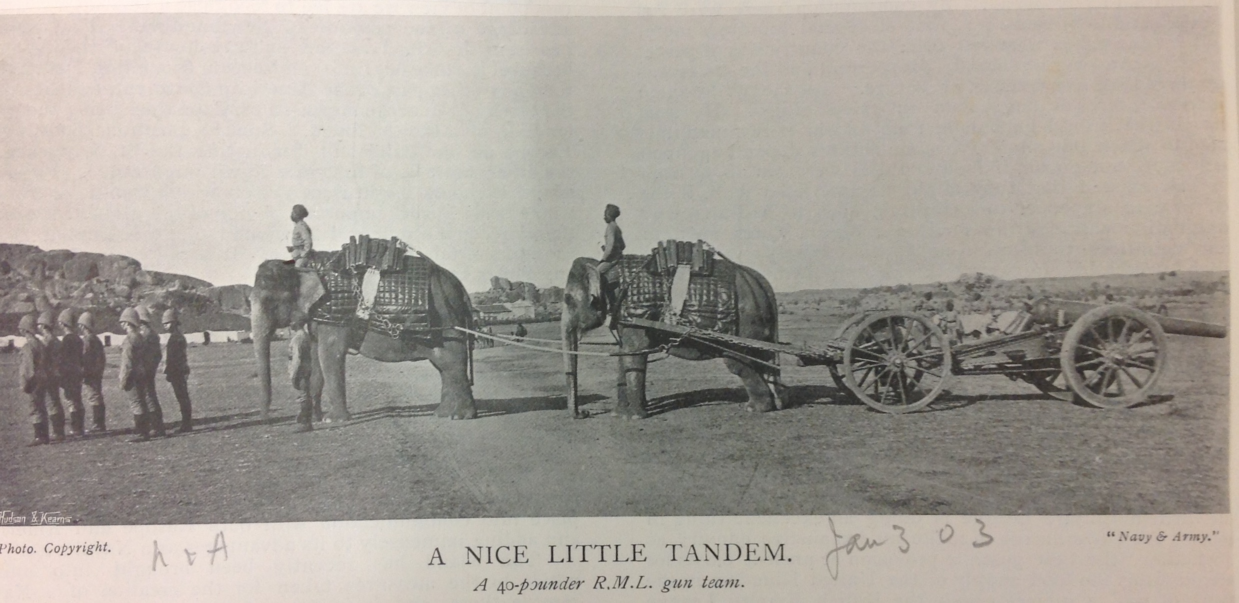 40 Pounder Rifled Muzzle Loading (RML) gun of a Royal Artillery elephant battery, India. From the Navy and Army Illustrated, published 1900